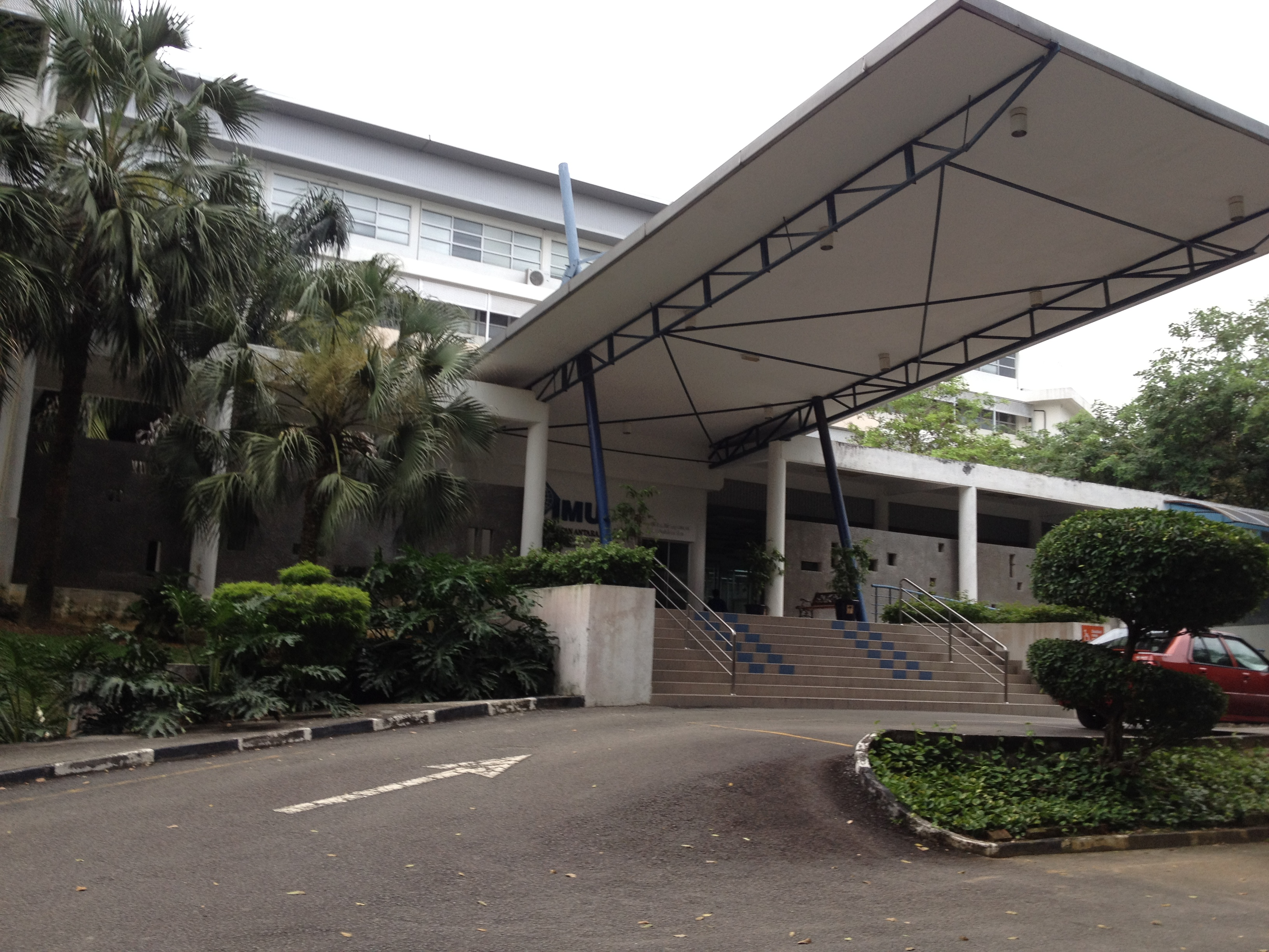 IMU Seremban